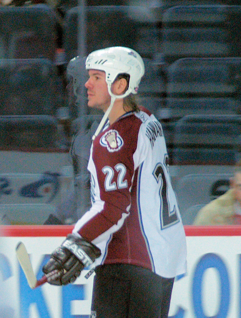 Scott Hannan in a pre-game warmup in Calgary, Alberta